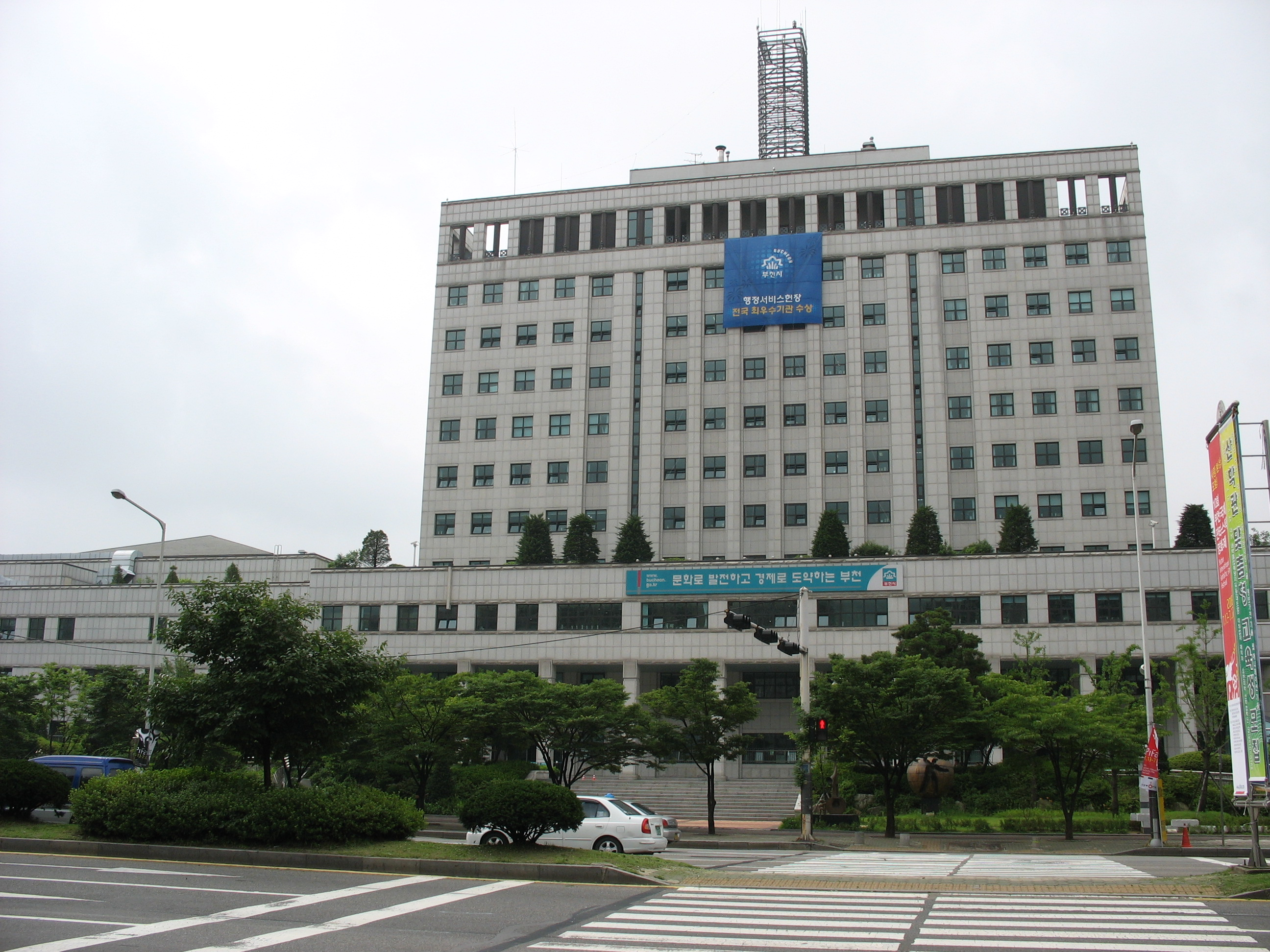 Backview of the city hall in Bucheon, South Korea